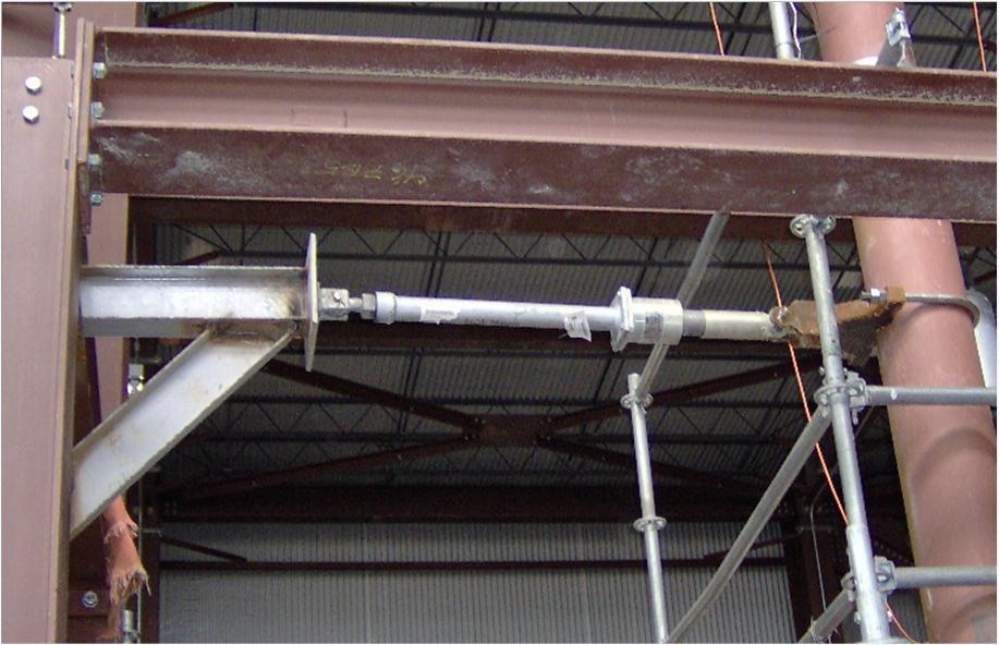 This is a mechanical snubber installed in the field.